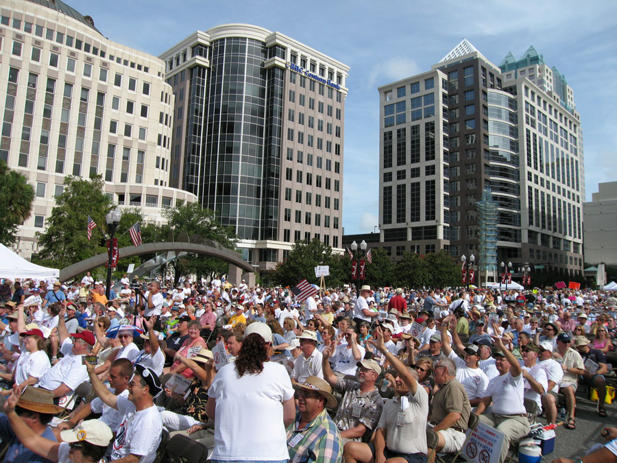 Image taken at the Orlando FairTax Rally - Taken By Jonathon Rube with ORLANDO360